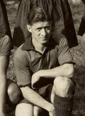 Stade rennais in 1936